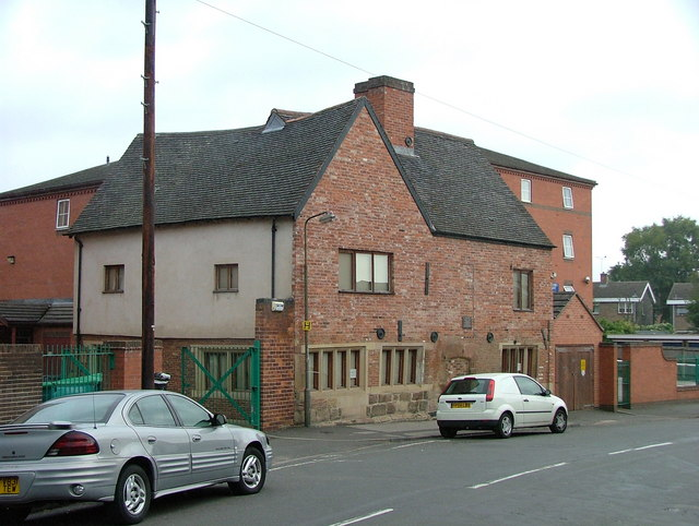 King's Mead - Nuns' Street All that remains of the Priory of King's Mead. The priory, dedicated to the Virgin Mary was named "Priorus de Pratis de Derby", but is better known as King's Mead. The remaining building appears likely to have been an outbuilding of some kind, rather than a part of the main priory buildings. After the dissolution the land passed through several hands, eventually becoming part of the Markeaton estate of the Mundy family. The land has subsequently been built over and after many years of serious dereliction the building was renovated and is now part of the University of Derby's student accommodation complex (visible in the background).